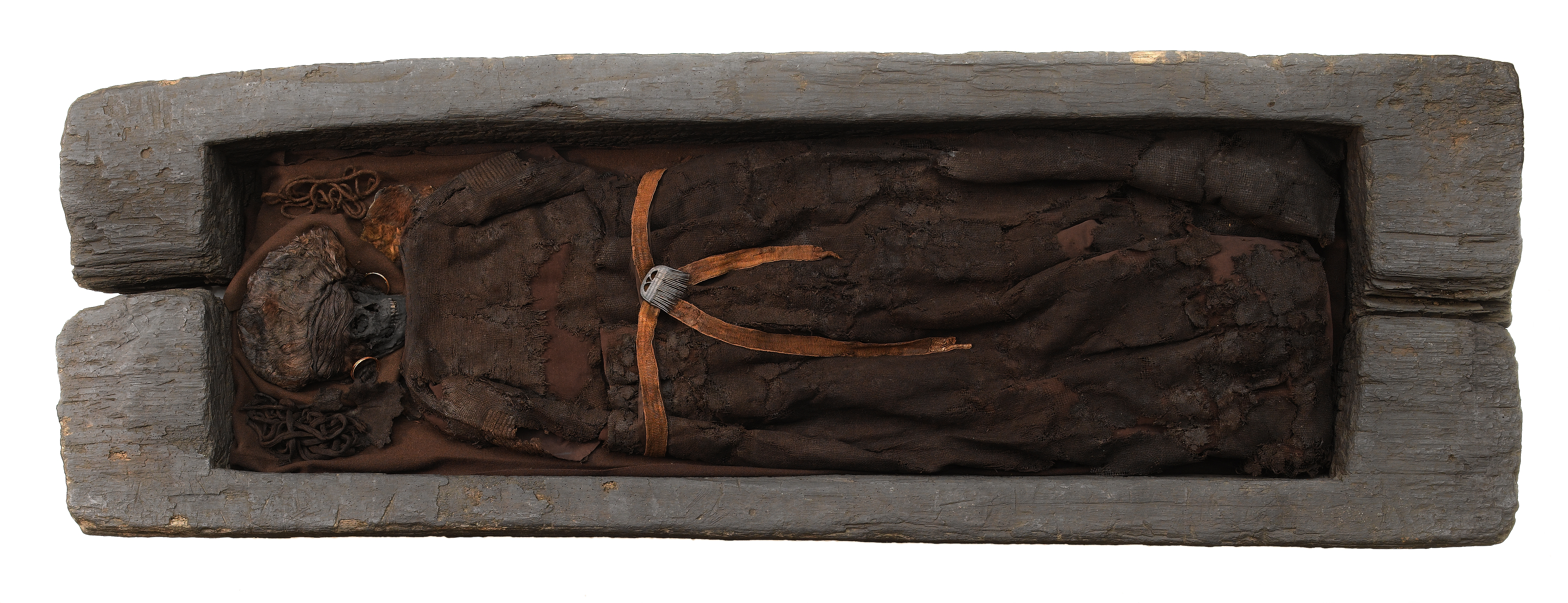 oak log kist of Skrydstrup woman, Nationalmuseet, Danmark